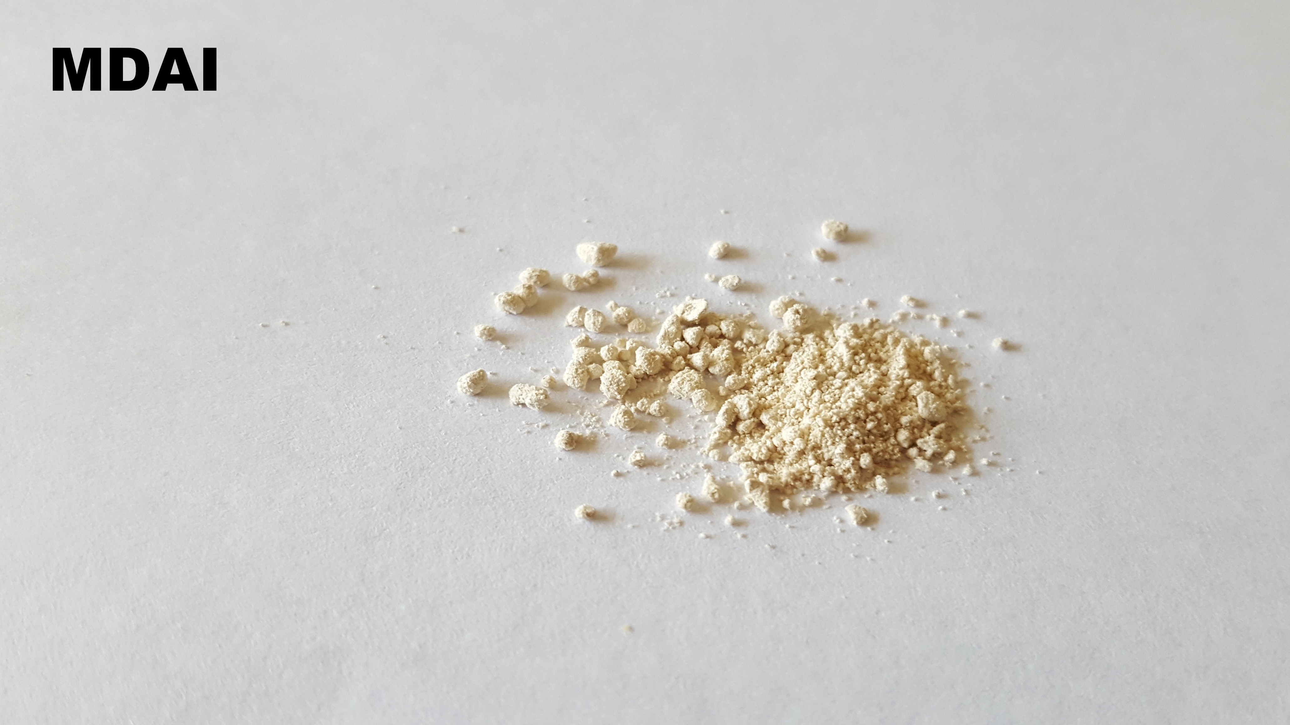 MDAI is a selective serotonin releasing agent (SSRA) and was commonly used in combination with other recreational chemicals during the legal high years.